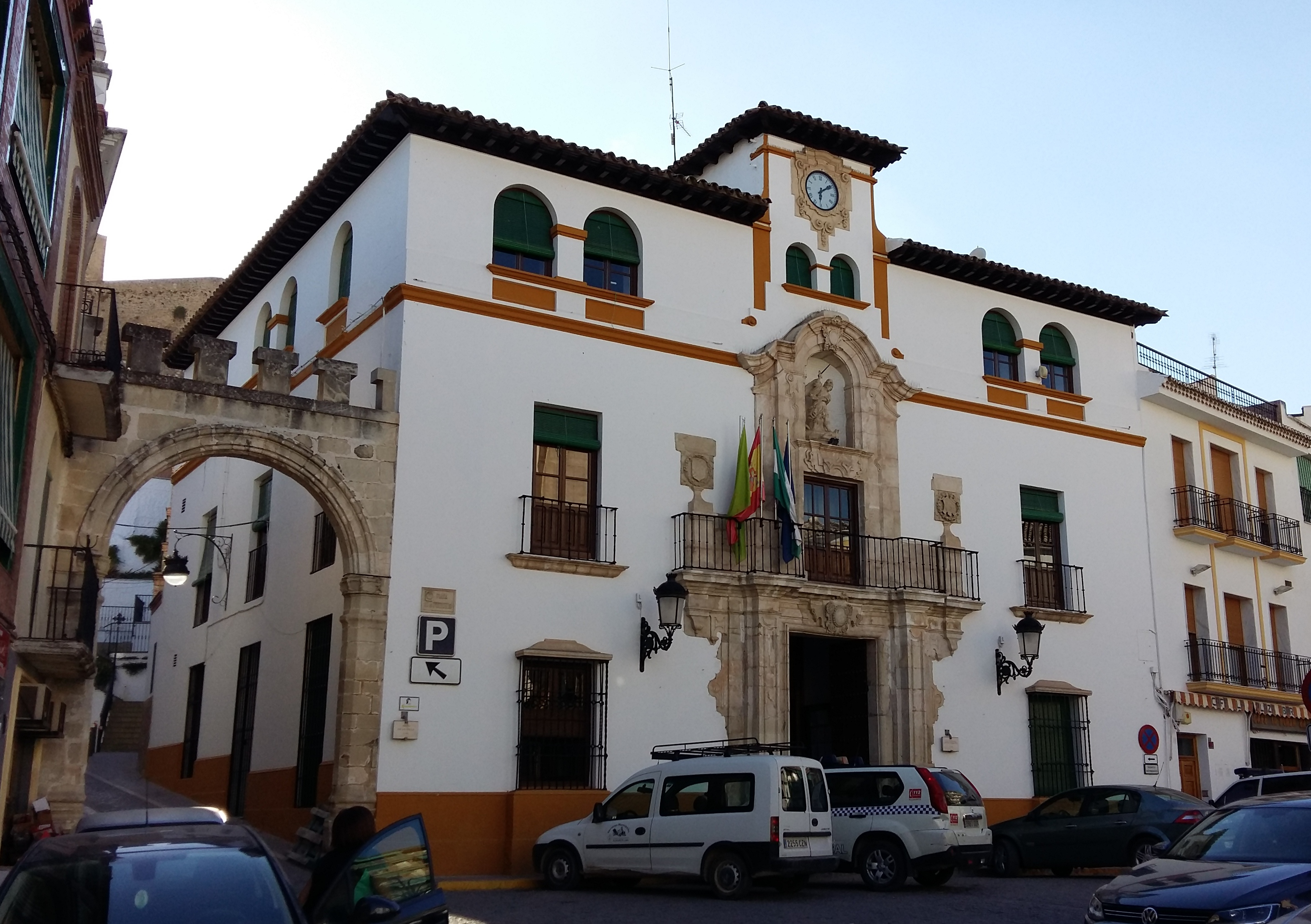 Town hall of Alcaudete